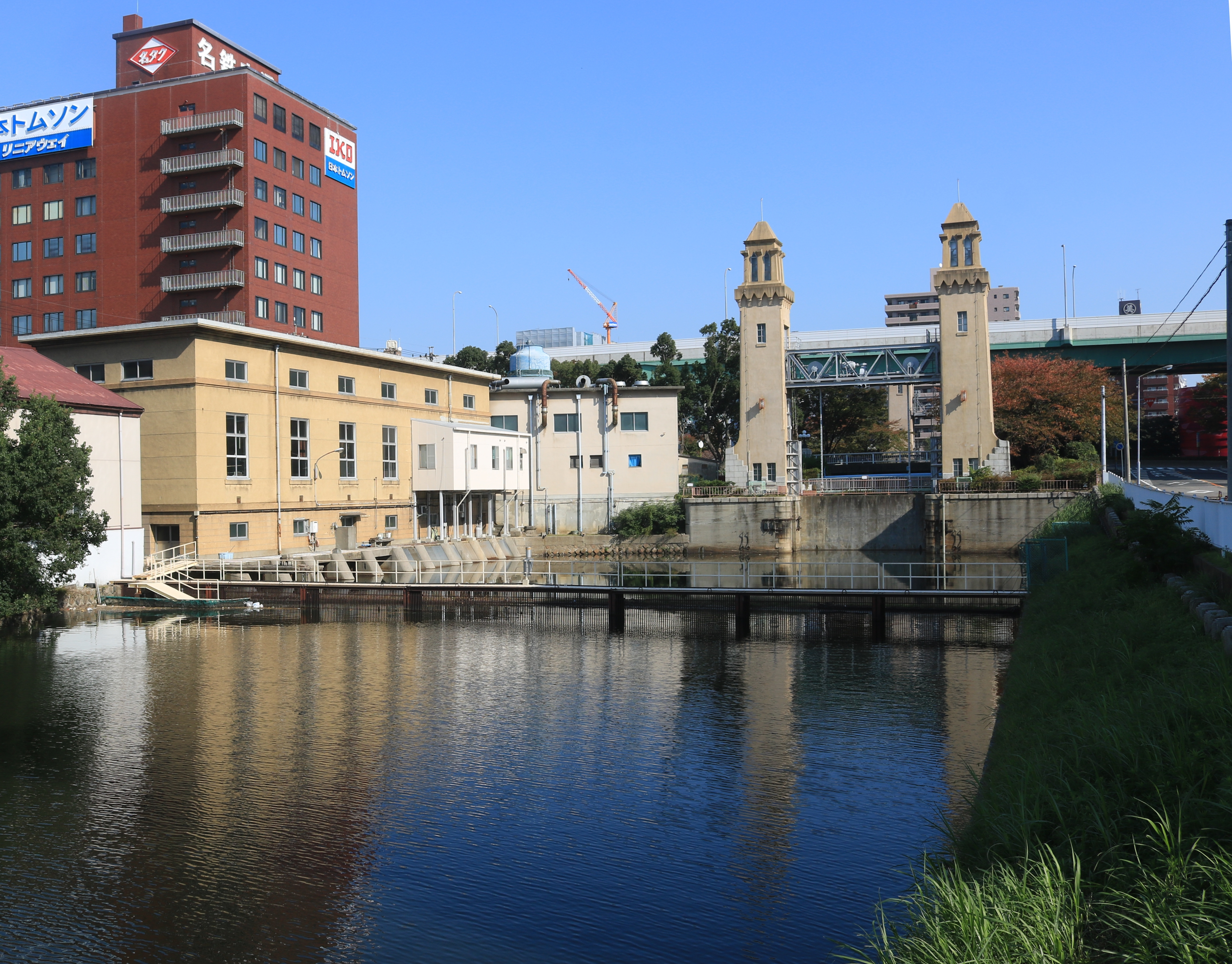 Matsushige Lock Gate and Hori River in Nakagawa-ku, Nagoya, Aichi Prefecture, Japan.